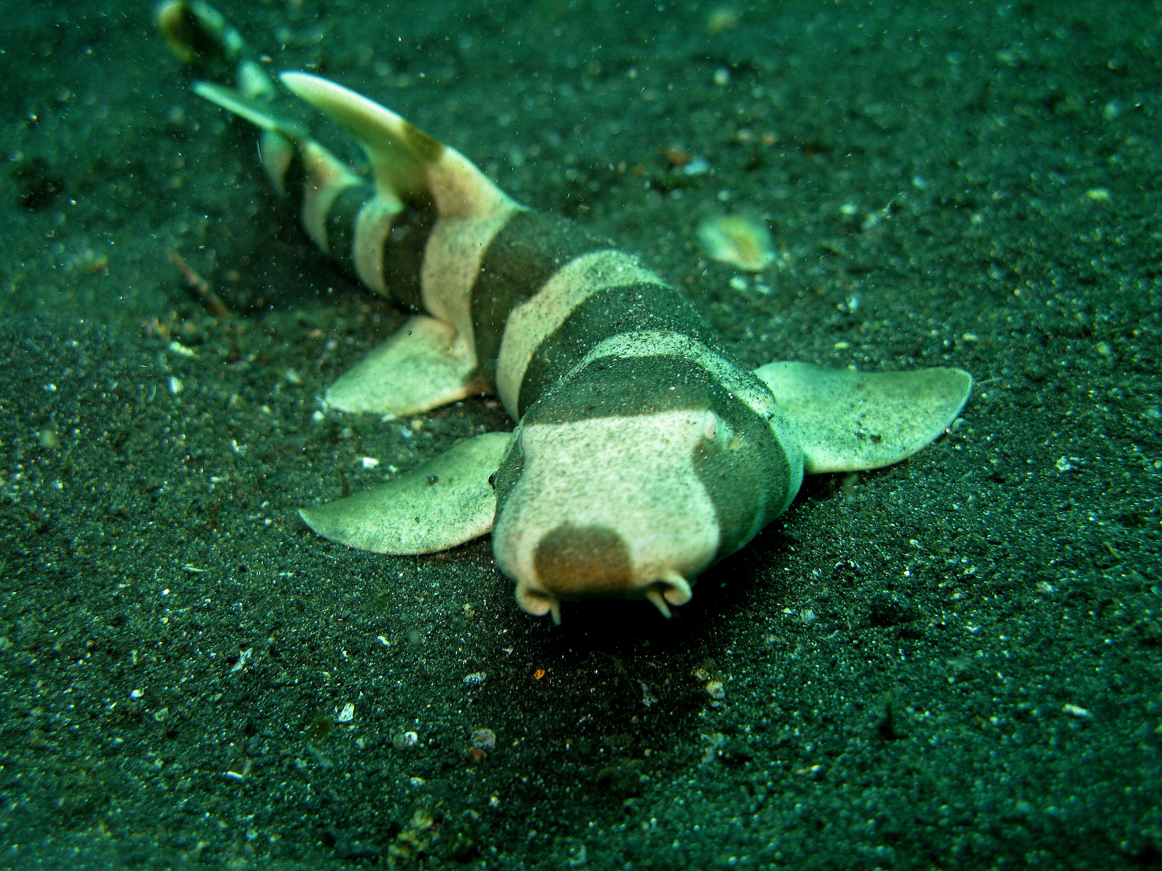 Juvenile brownbanded bamboo shark (Chiloscyllium punctatum) in the Lembeh Straits.